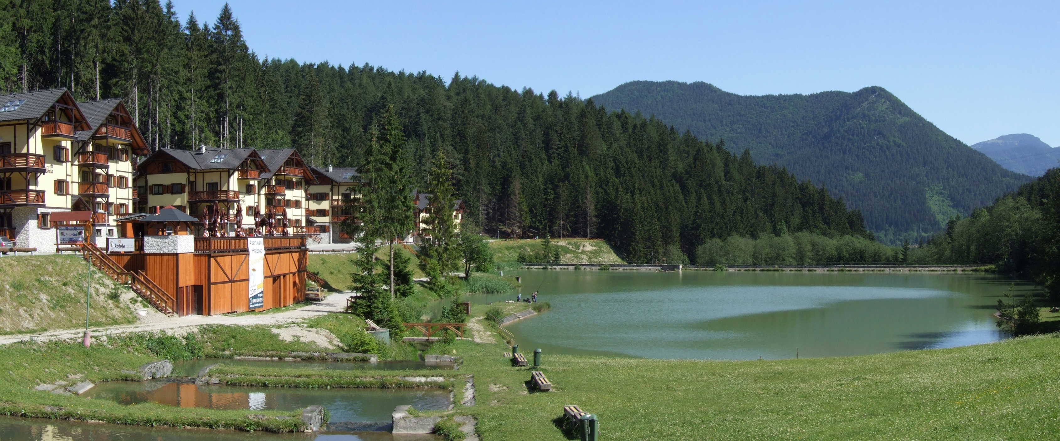 Hrabovo, part of city Ružomberok, Slovakia